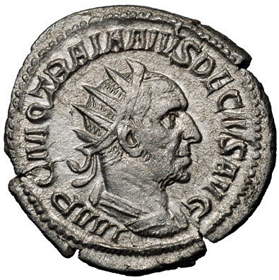 Trajan Decius (Augustus)